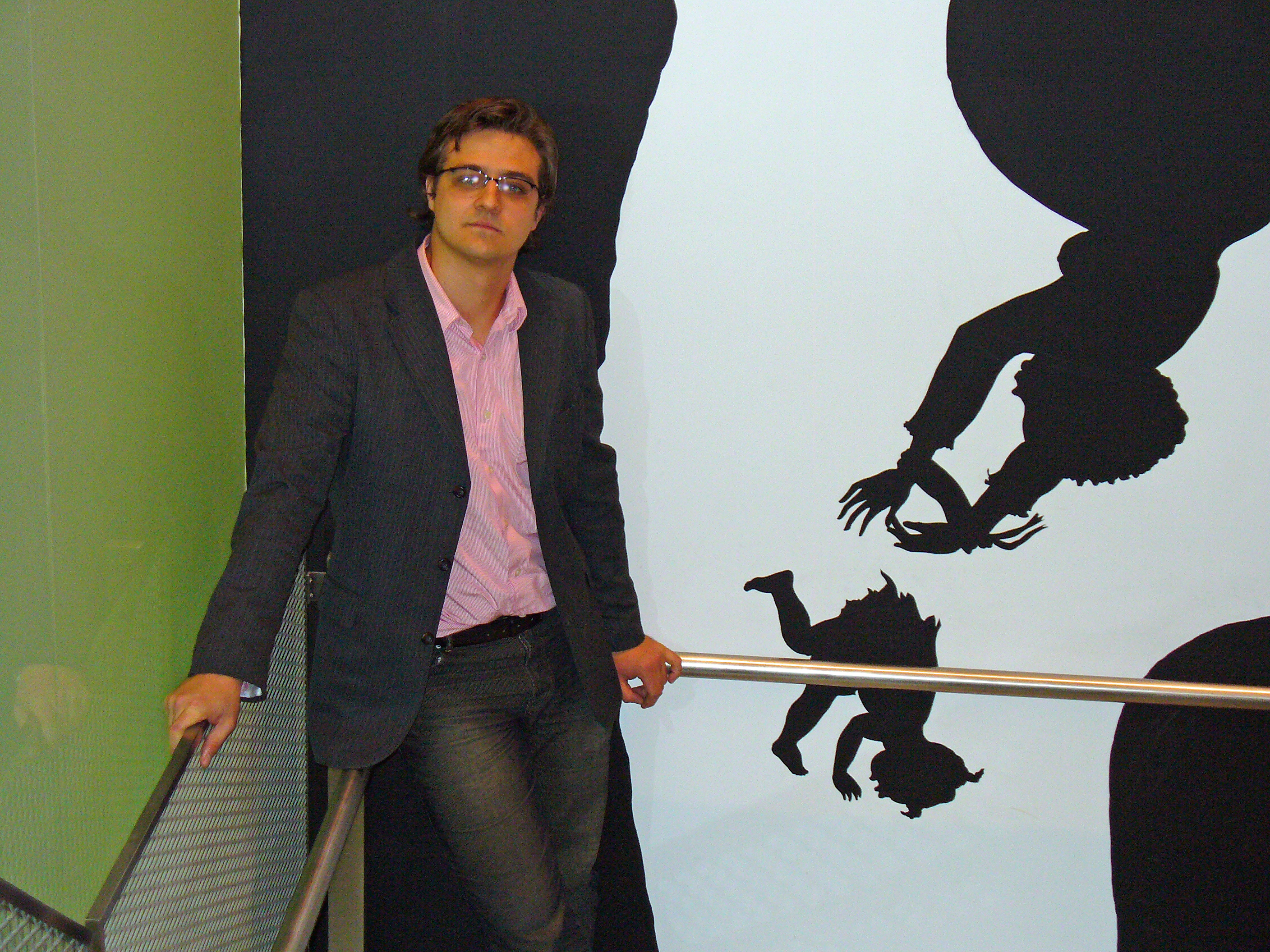 Christopher Hayes by David Shankbone